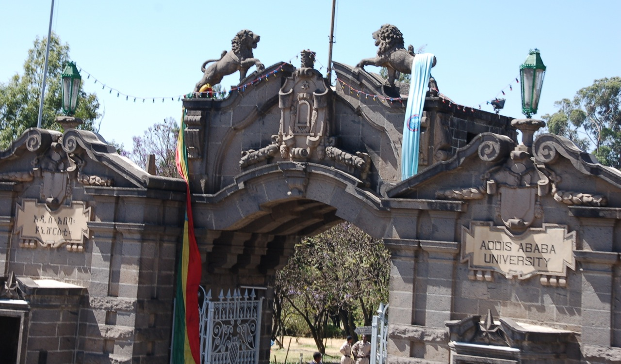 Addis Abeba